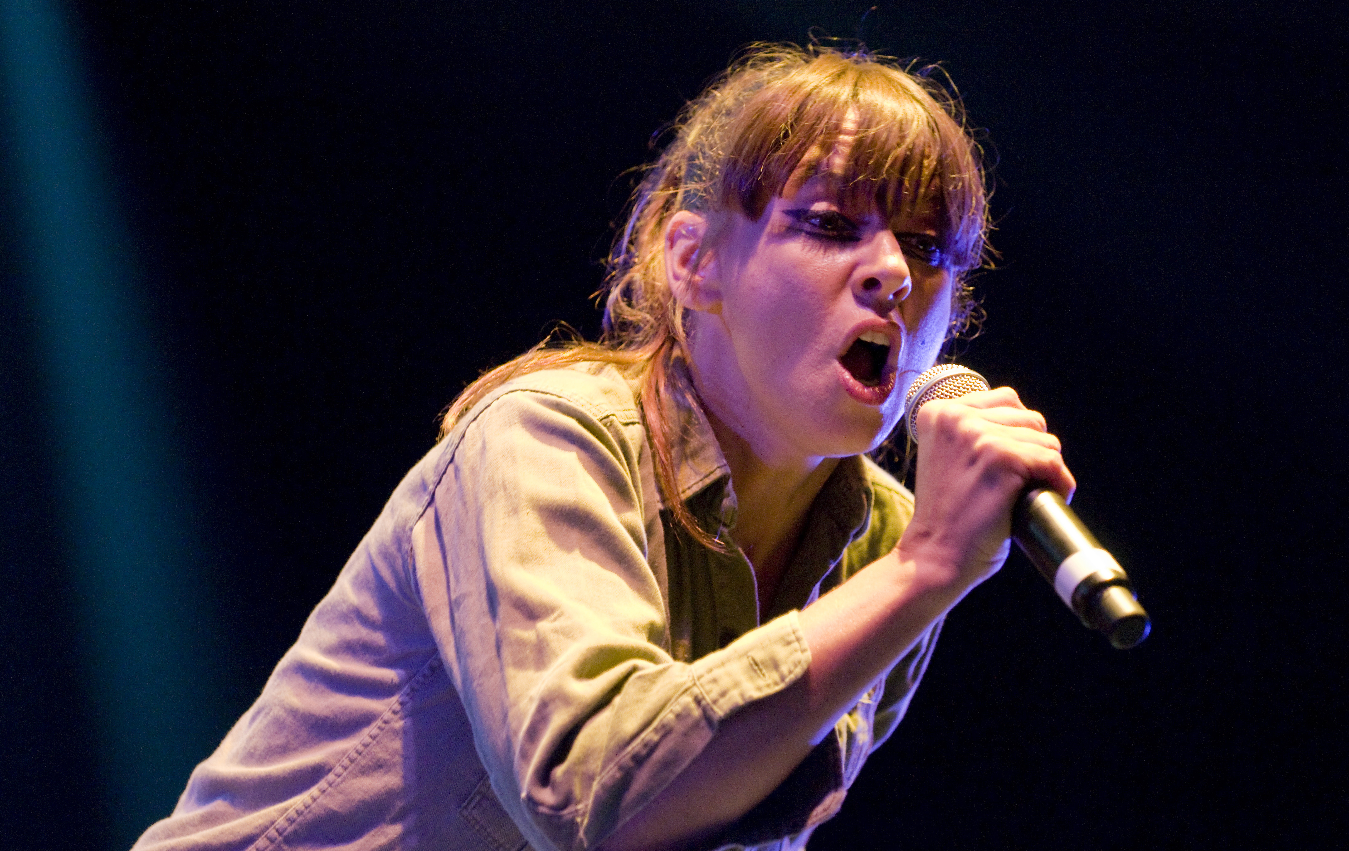 Cat Power. Performing a live concert in the Primavera Sound 2008, Barcelona, May 2008.